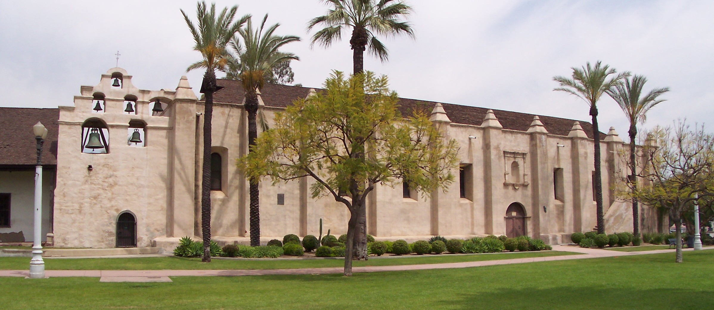 Mission San Gabriel Arcangel in San Gabriel, California